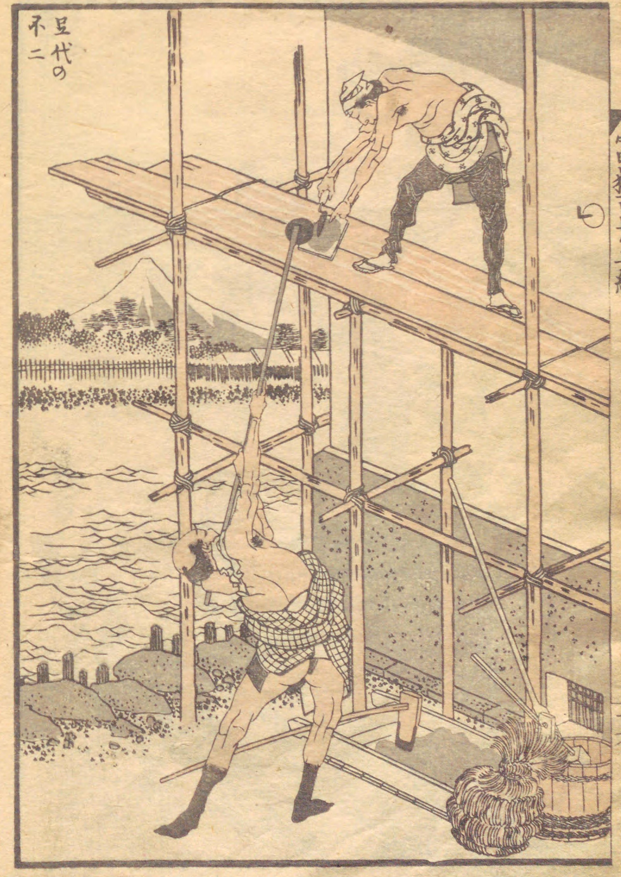 Fuji with a Scaffold (Ashishiro no Fuji): Detatched page from One Hundred Views of Mount Fuji (Fugaku hyakkei) Vol. 3